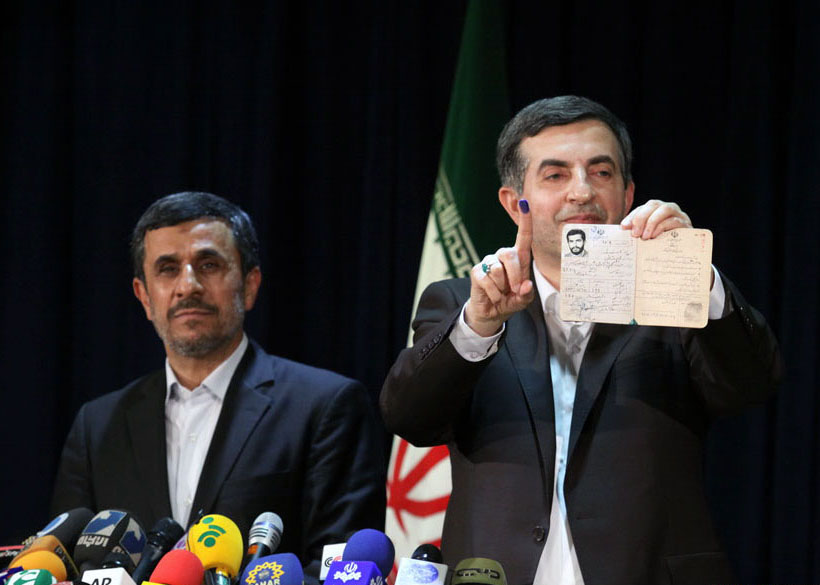 Mahmoud Ahmadinejad and Esfandiar Rahim Mashaei in the 2013 presidential election headquarters of Interior Ministry of Iran.